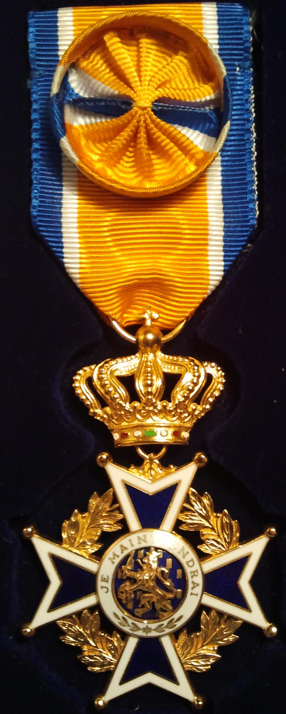 Decoration of the Officer in the Dutch Order of Oranje-Nassau